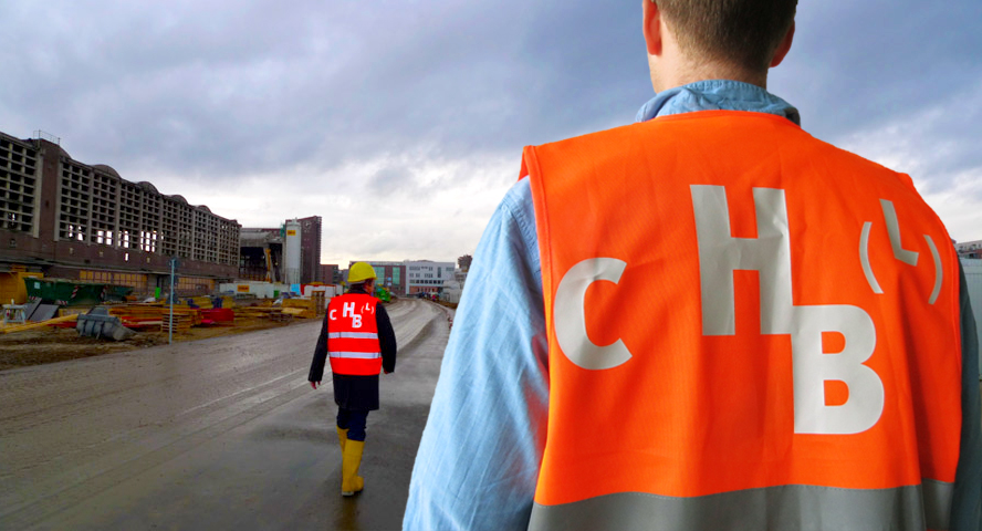 Coop Himelb(l)au Architects construction vest designed by April Greiman